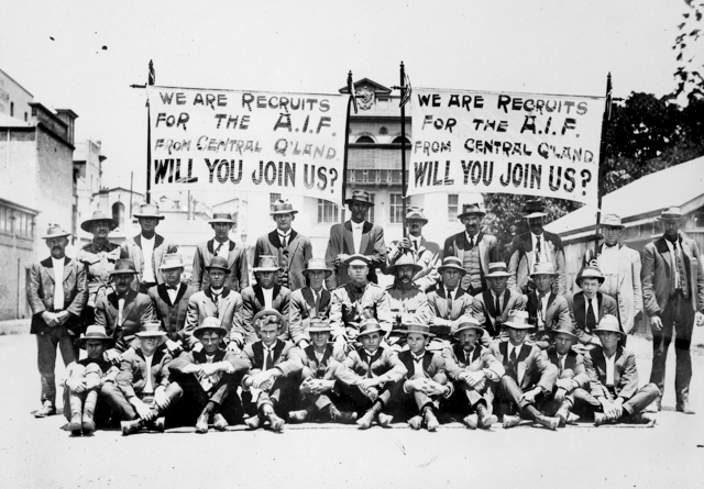 A group of recruits for the Australian Imperial Force (AIF) from Rockhampton and surrounds after arriving in Brisbane for training in 1915 or 1916. They are seated in front of recruiting banners which may have been used in recruitment marches in Queensland.